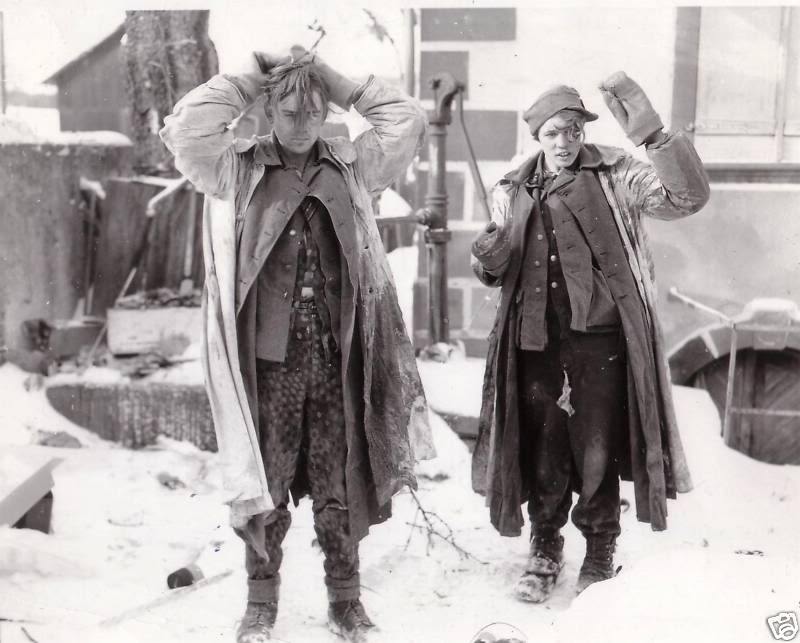 Adolescent German Soldiers from the Waffen-SS taken prisoner at Schillersdorf in Alsace, during Operation Nordwind